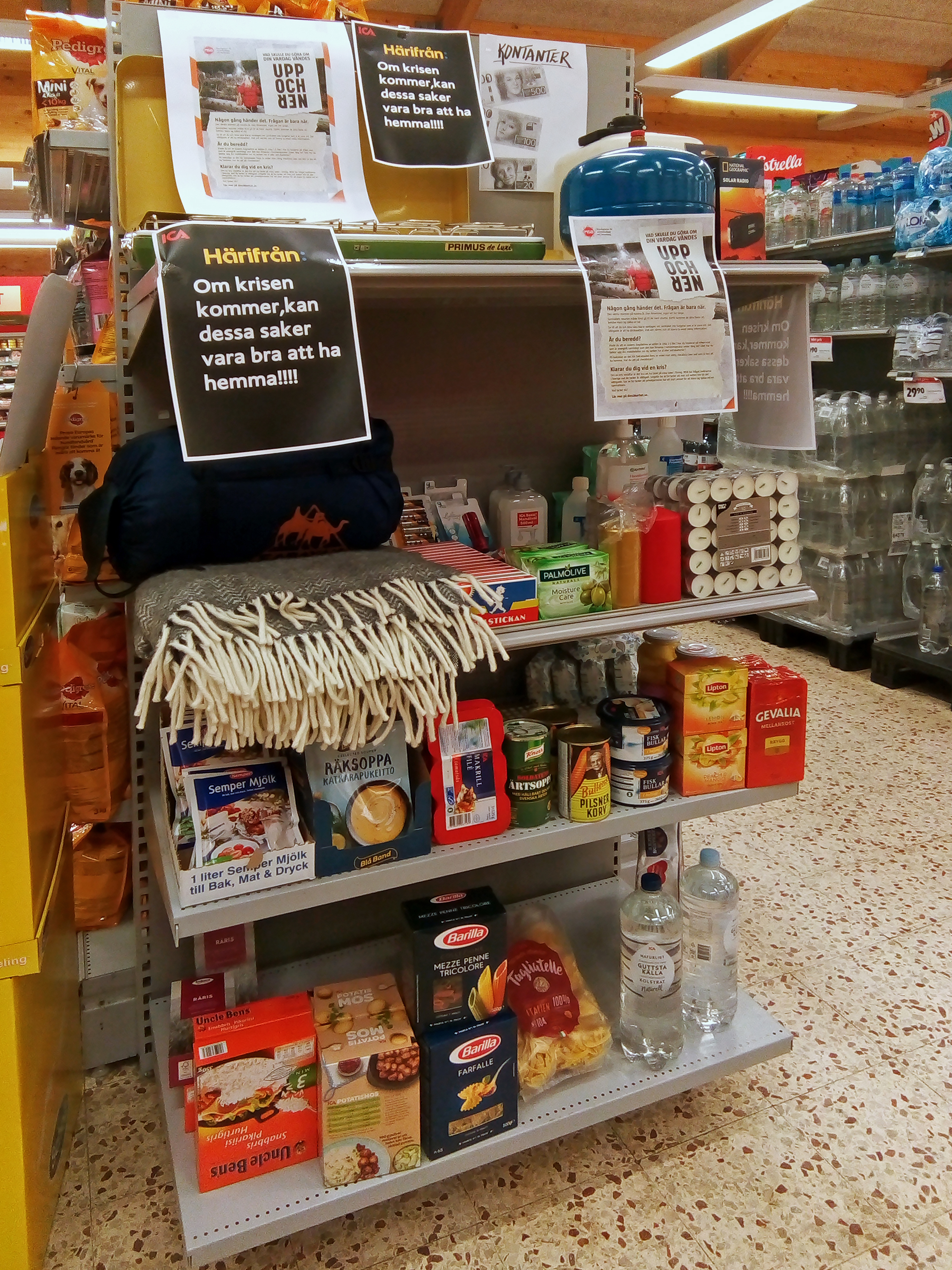 Display in an ICA grocery shop in Brastad, Sweden, of the items listed as necessary in the booklet "Om krisen eller kriget kommer" ("If the crisis or the war comes").